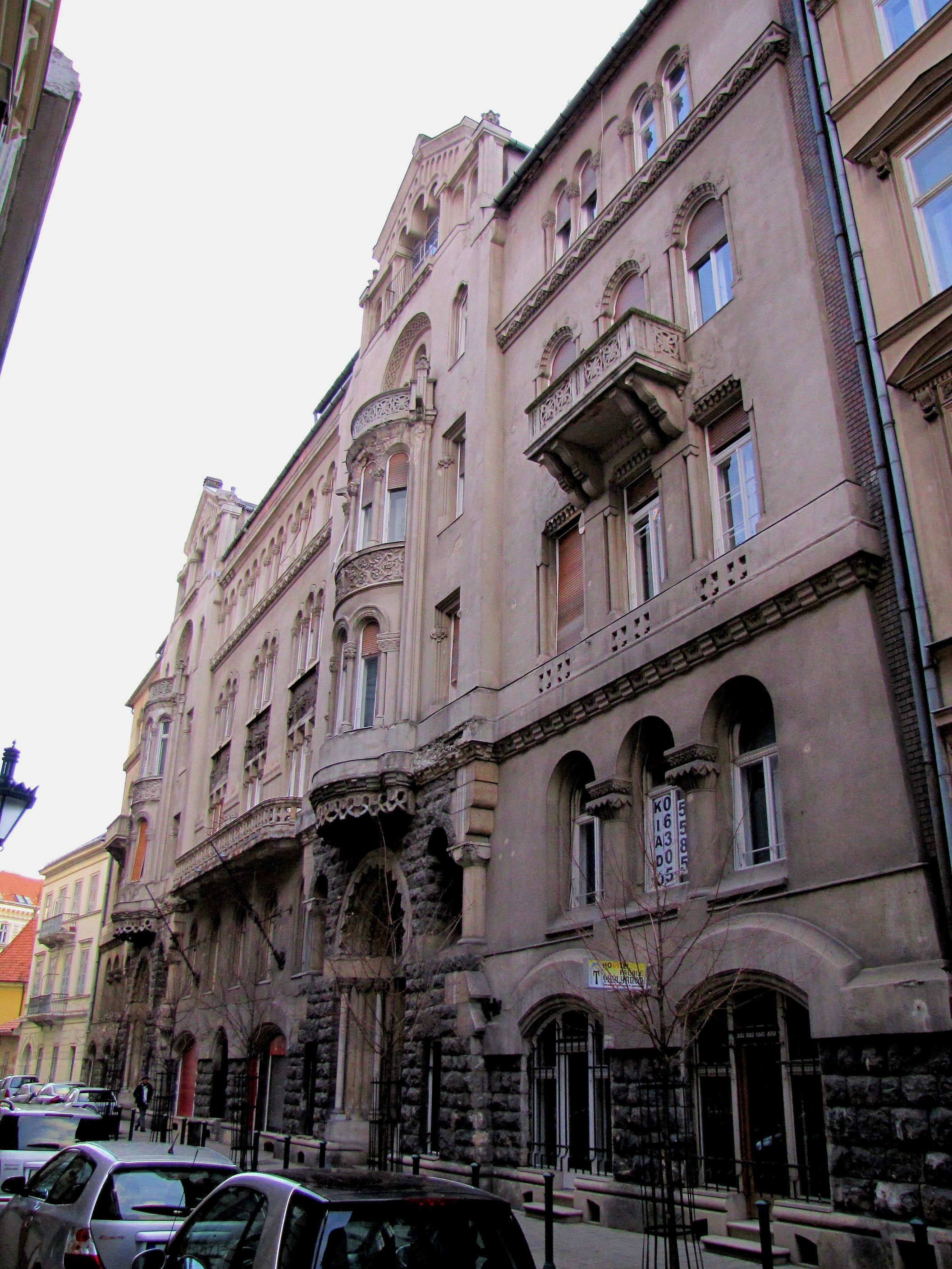 Thökölyanum, Budapest. Built as a college for Serbian students. Architect: Sándor Toronyi Fellner, 1907.